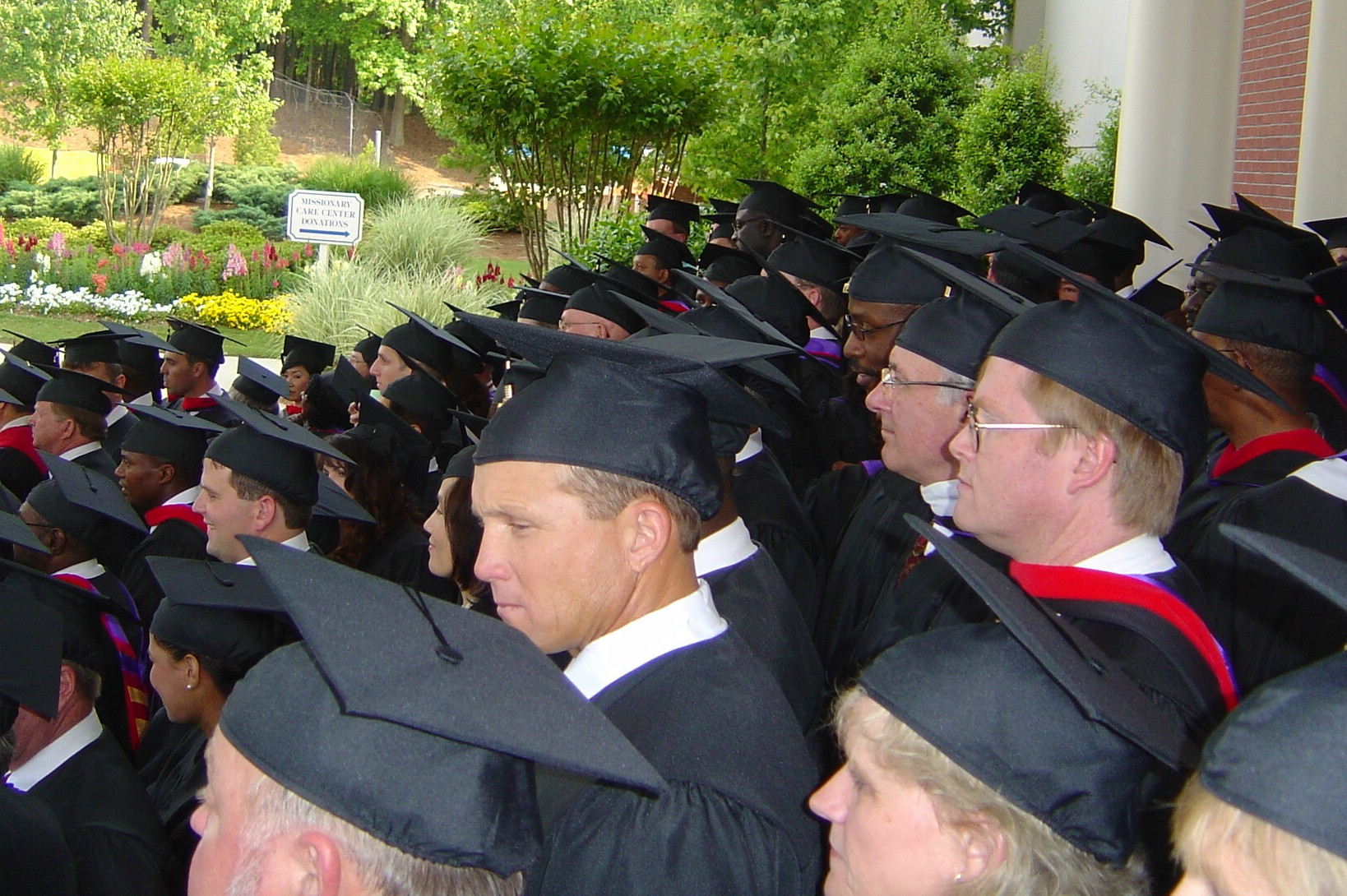 Luther Rice Seminary & University Graduates in gowns